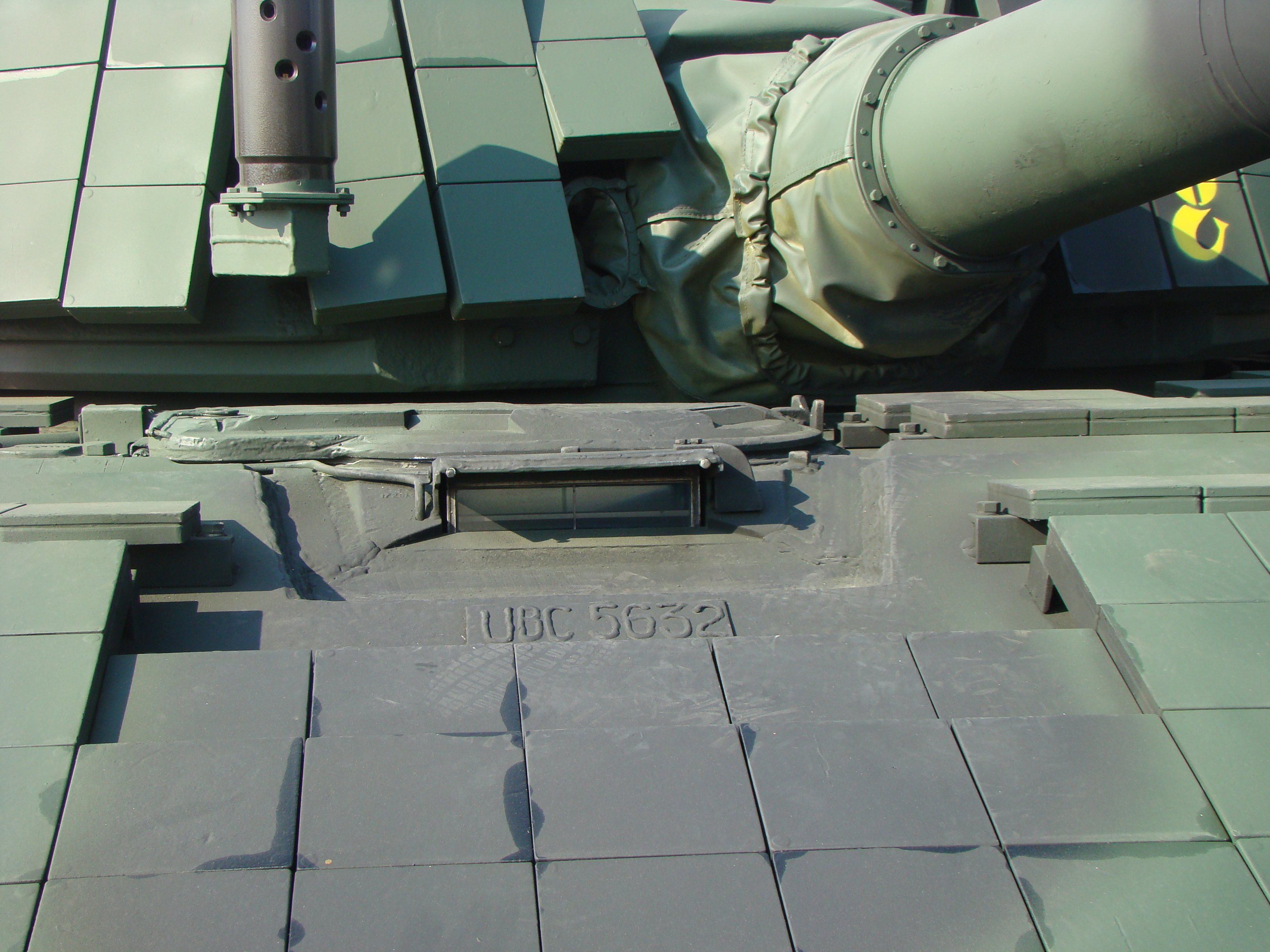 Polish PT-91 Twardy MBT with military license plate of Poland (1976-2000)